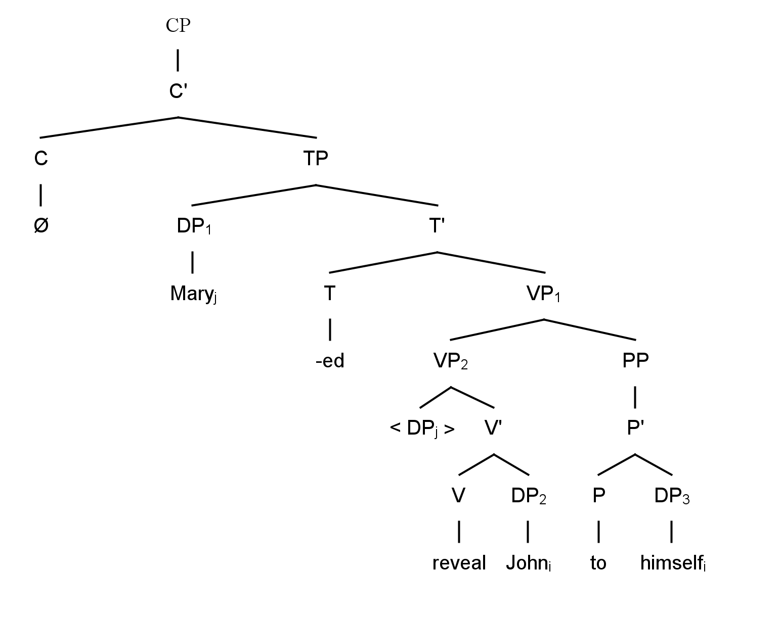 Syntactic Tree showing the relations of adherence to Principle A for Binding Theory and Locality